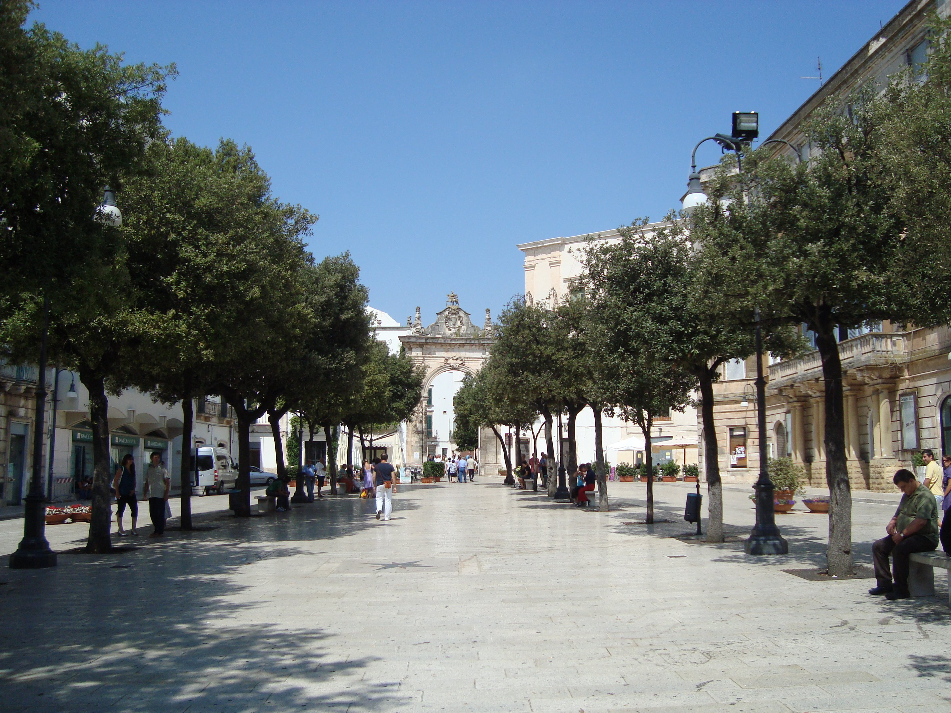 Piazza XX settembre and porta di San Stefano of Martina Franca, Apulia